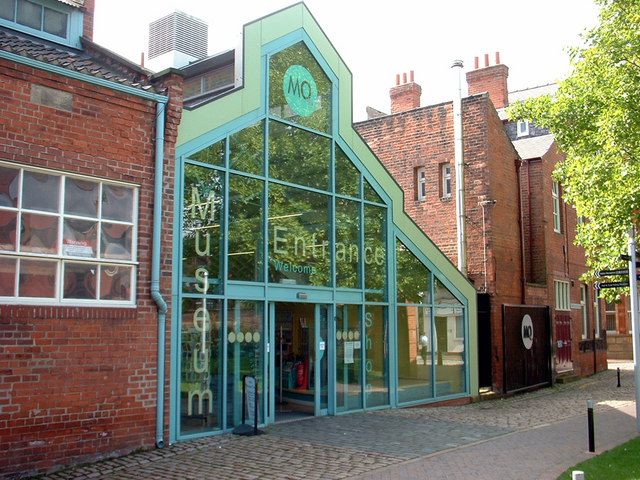 Hull & East Riding Museum, Hull, East Riding of Yorkshire, England.This museum houses the ancient wooden Hasholme Boat and the Horkstow Roman Mosaics.